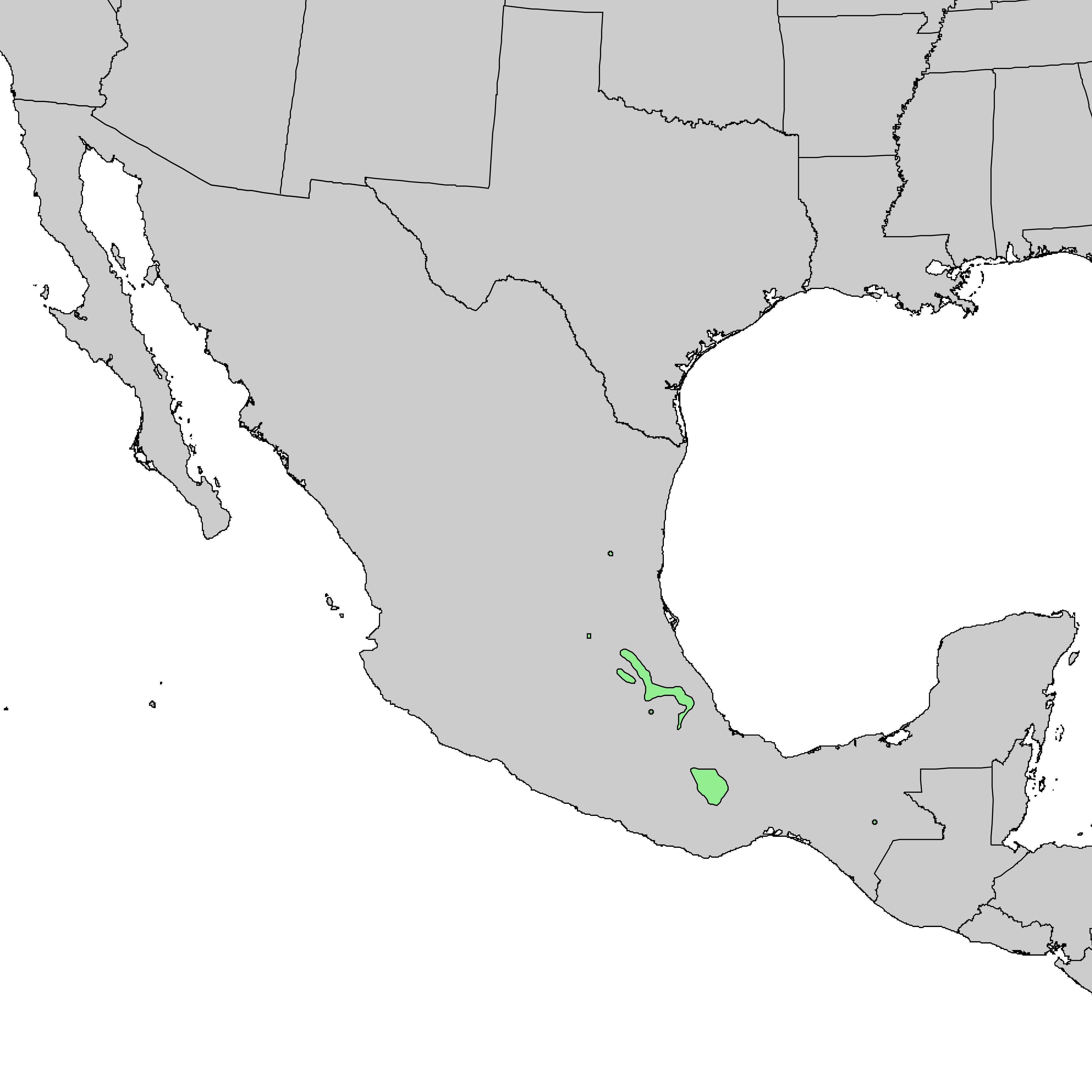 Natural distribution map for Pinus patula